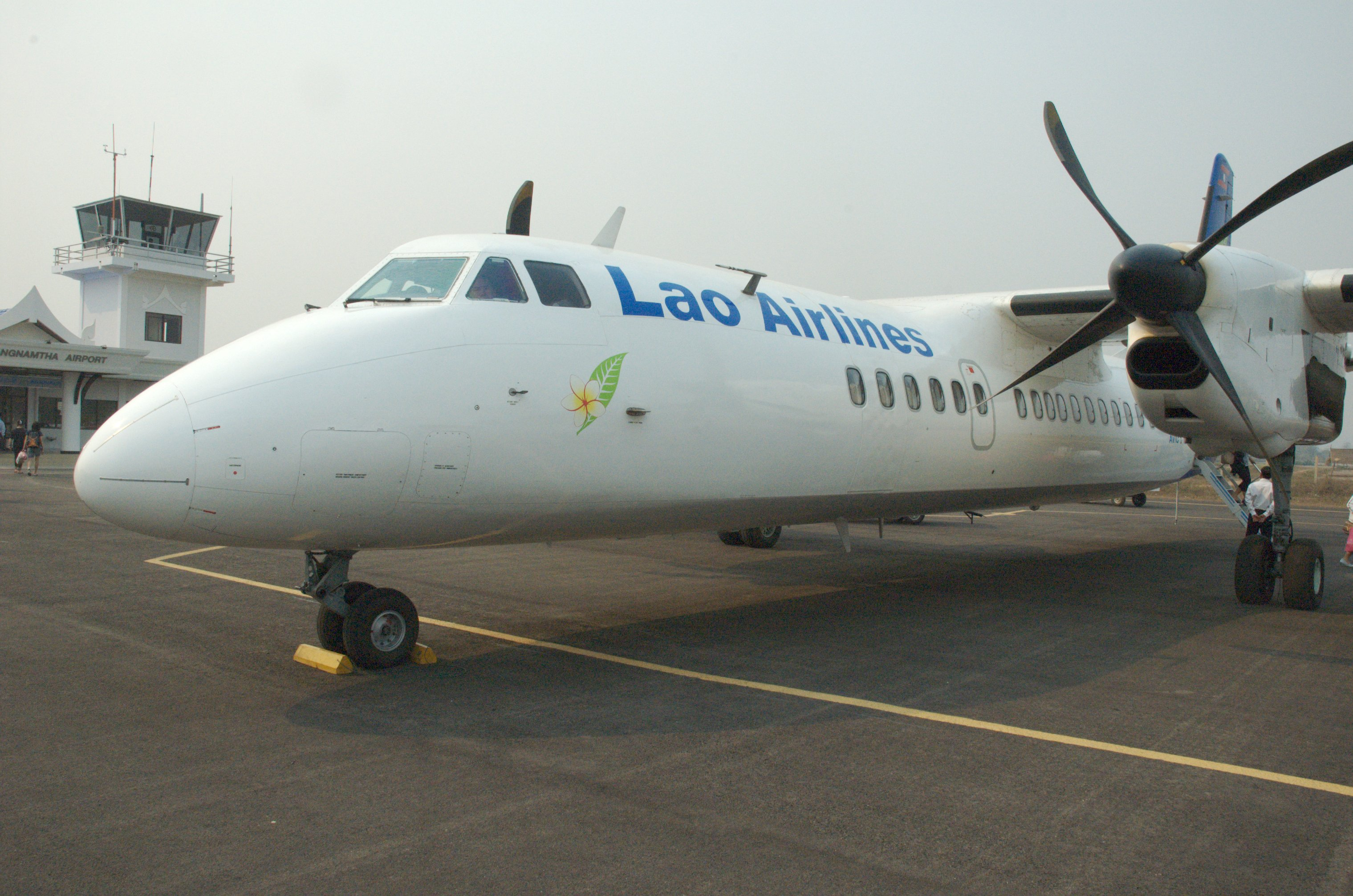 Frontal view of Lao Airlines Xian MA60 (RDPL-34168) at Louangnamtha Airport, Laos